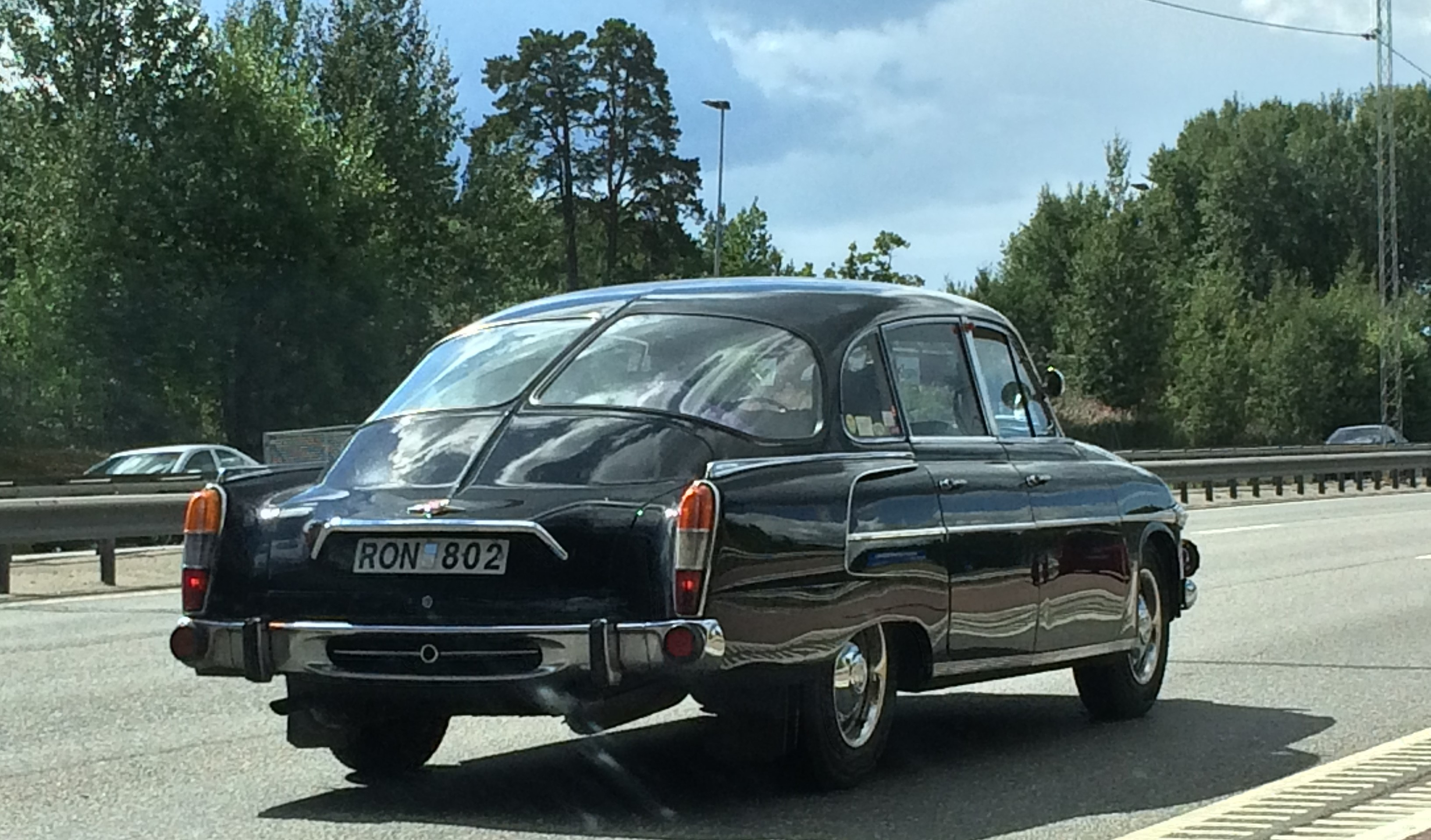 Tatra 603, 1973 model, outside Stockholm